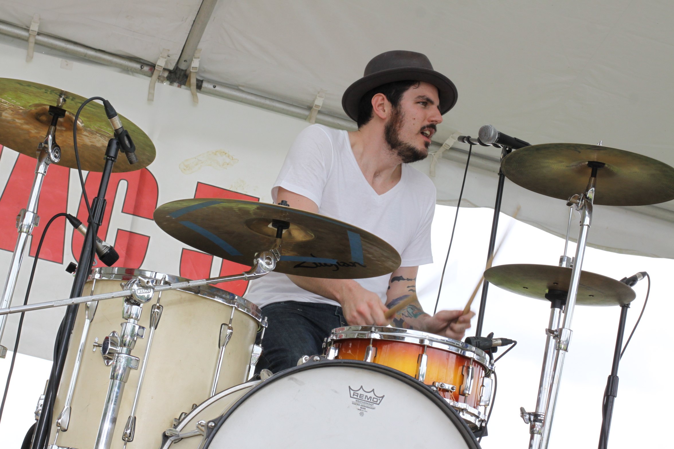 TJ Kong and the Atomic Bomb Dan Bruskewicz - Vox, Rhythm Guitar, Harmonica Kevin Conner - Lead Guitar Joshua "J.A.M" Machiz - Upright Dan Cask - Drums, yelling References TJ Kong + the Atomic Bomb. . TJ Kong + the Atomic Bomb. .